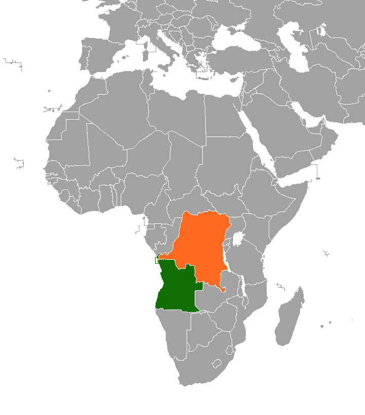 Map highlighting Angola in green and the DRC in orange.